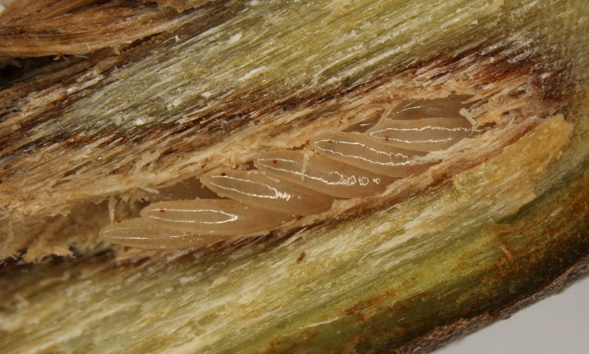 Chorus cicada (Amphipsalta zelandica) eggs in a kiwifruit cane